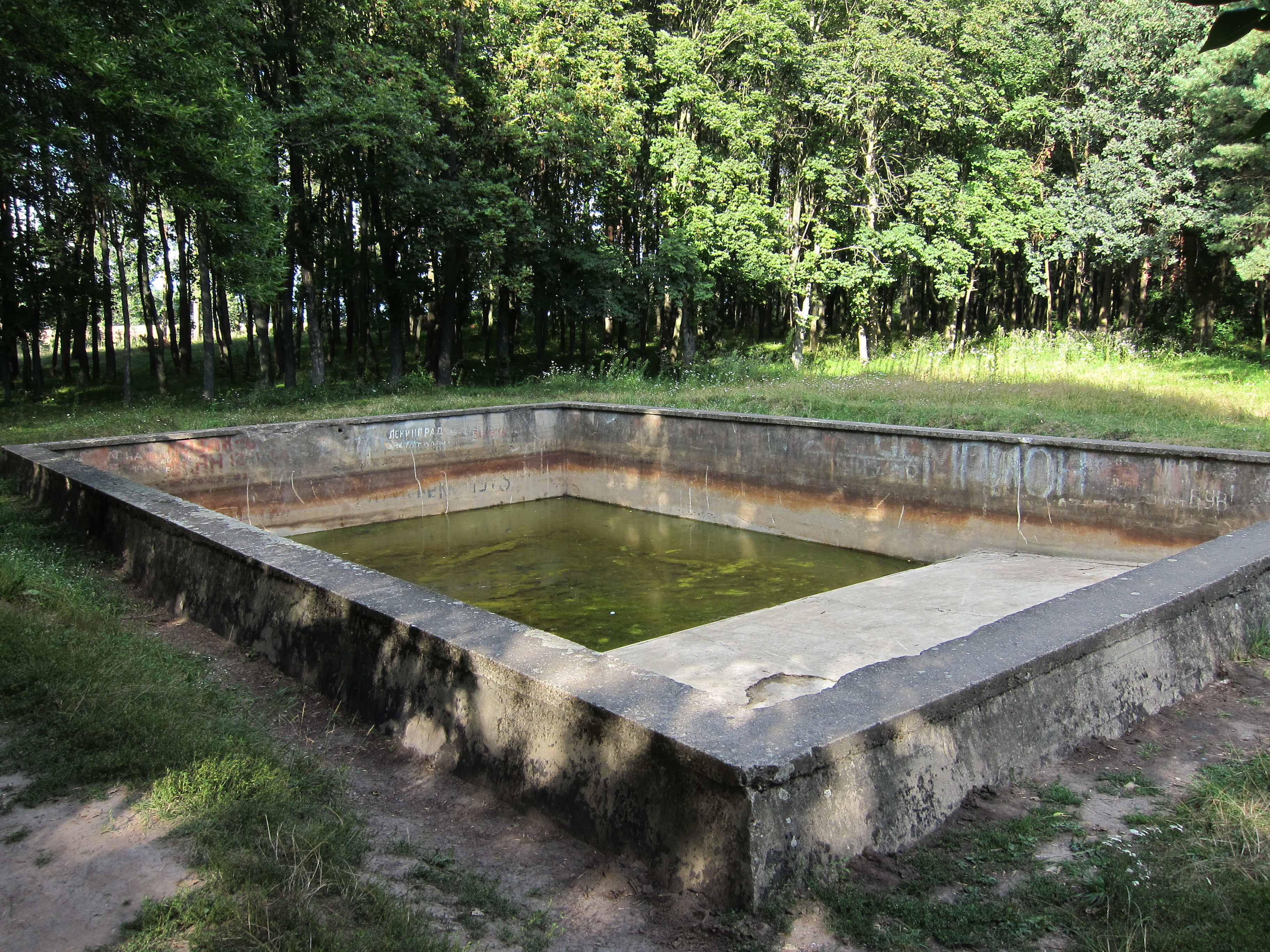 Pool at Werwolf (Wehrmacht HQ)